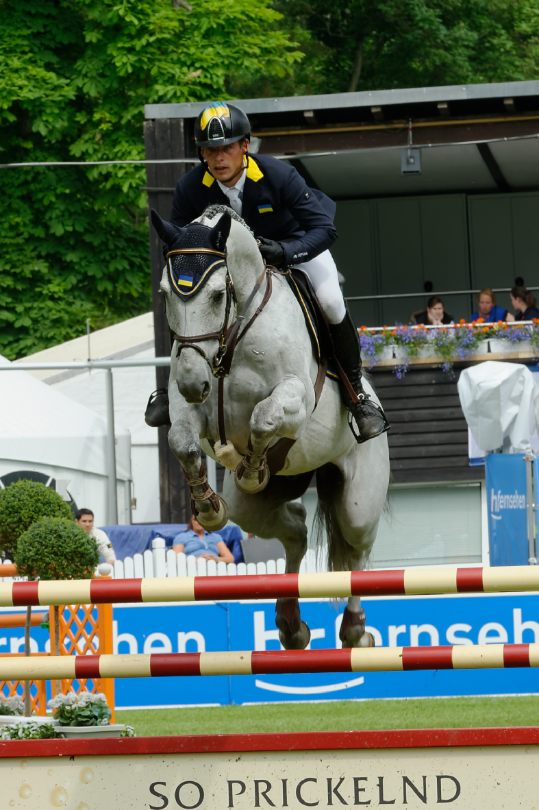 CSIYH* int. Springprüfung nach Strafpunkten und Zeit Internationales Pfingstturnier Wiesbaden 2015 The making of this document was supported by the Community-Budget of Wikimedia Germany.